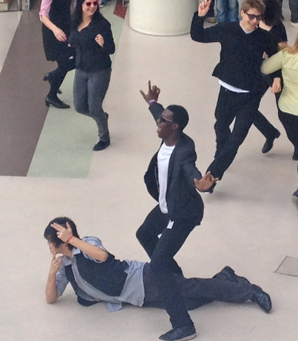 Students "spontaneously" burst into dance in the Atrium, Bradford University